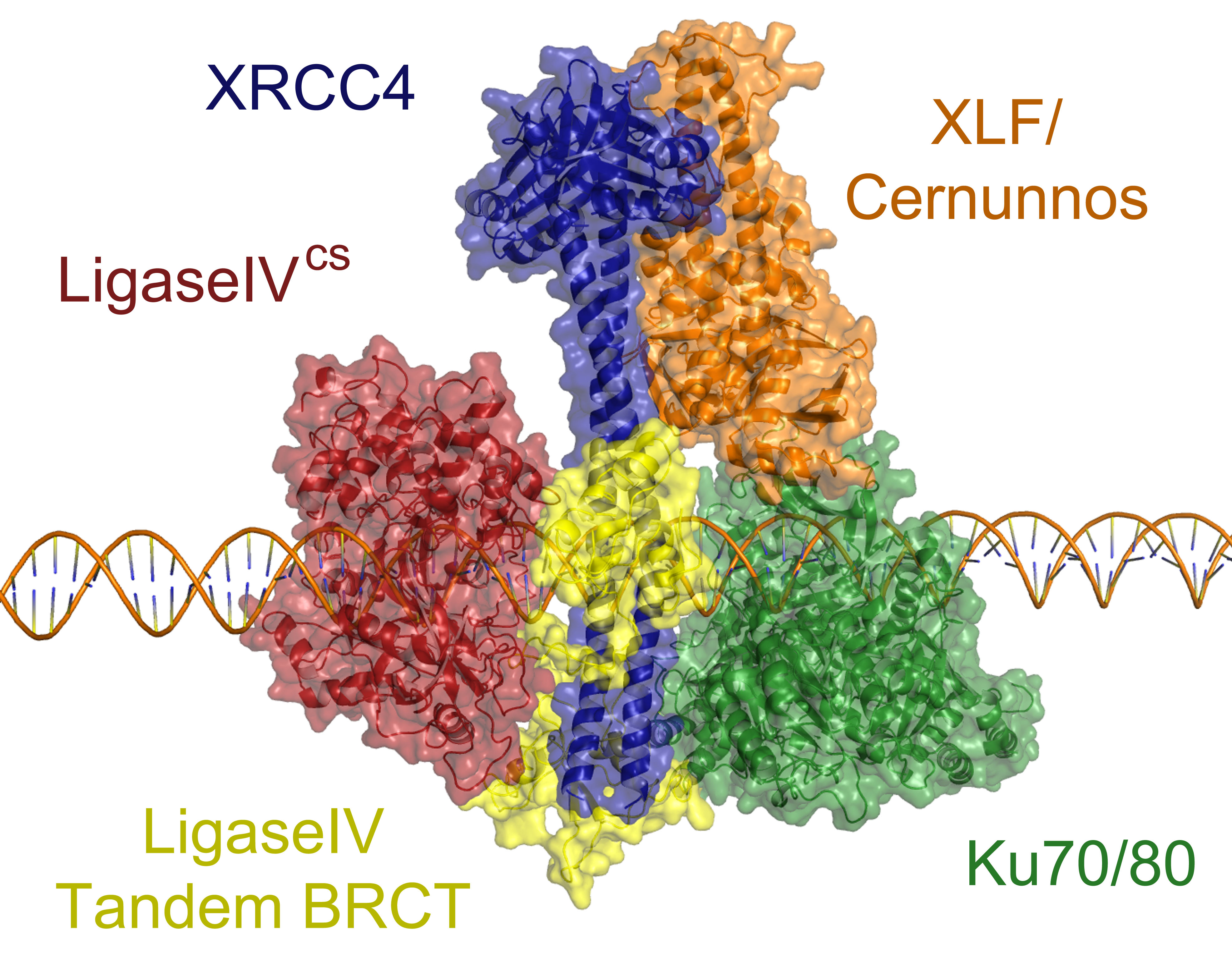 Interaction of XRCC4 with Ligase IV, XLF/Cernunnos, and Ku70/80 during NHEJ